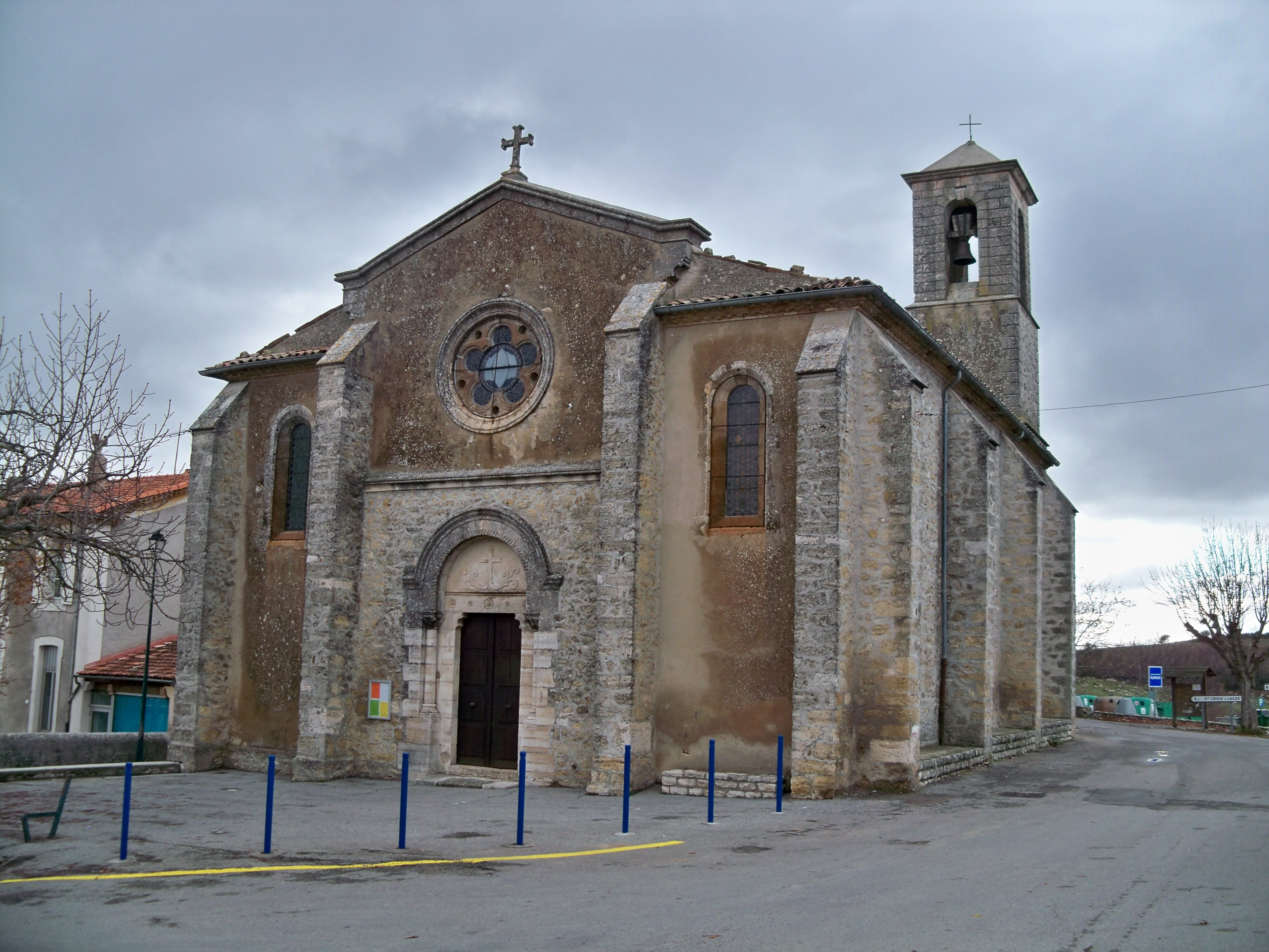 Saint Sebastian, neo-romanesque parish church of Vachères (Alpes de Haute Provence, France)